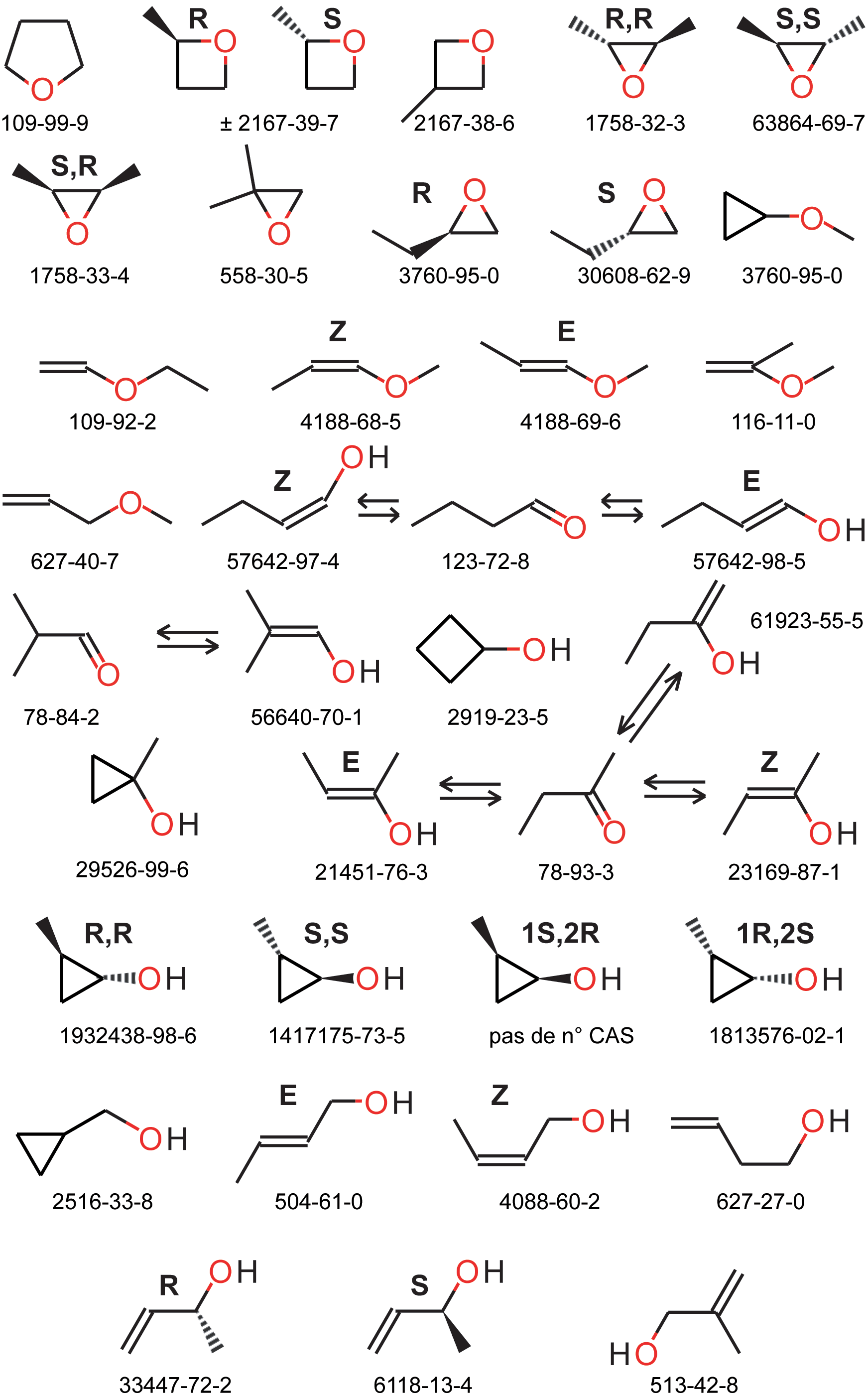 isomers C4H8O